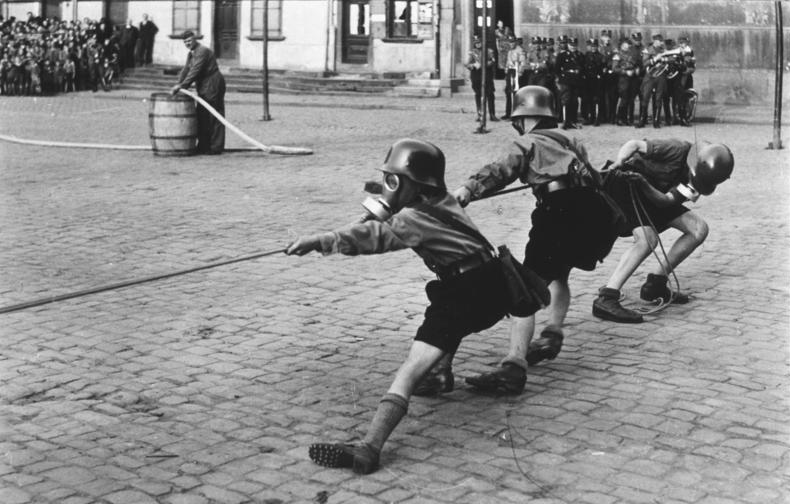 Information added by Wikimedia users.